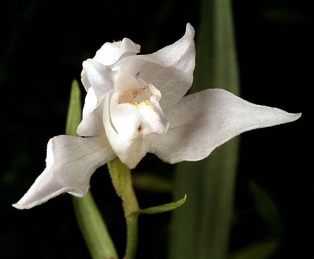 Cephalanthera rubra